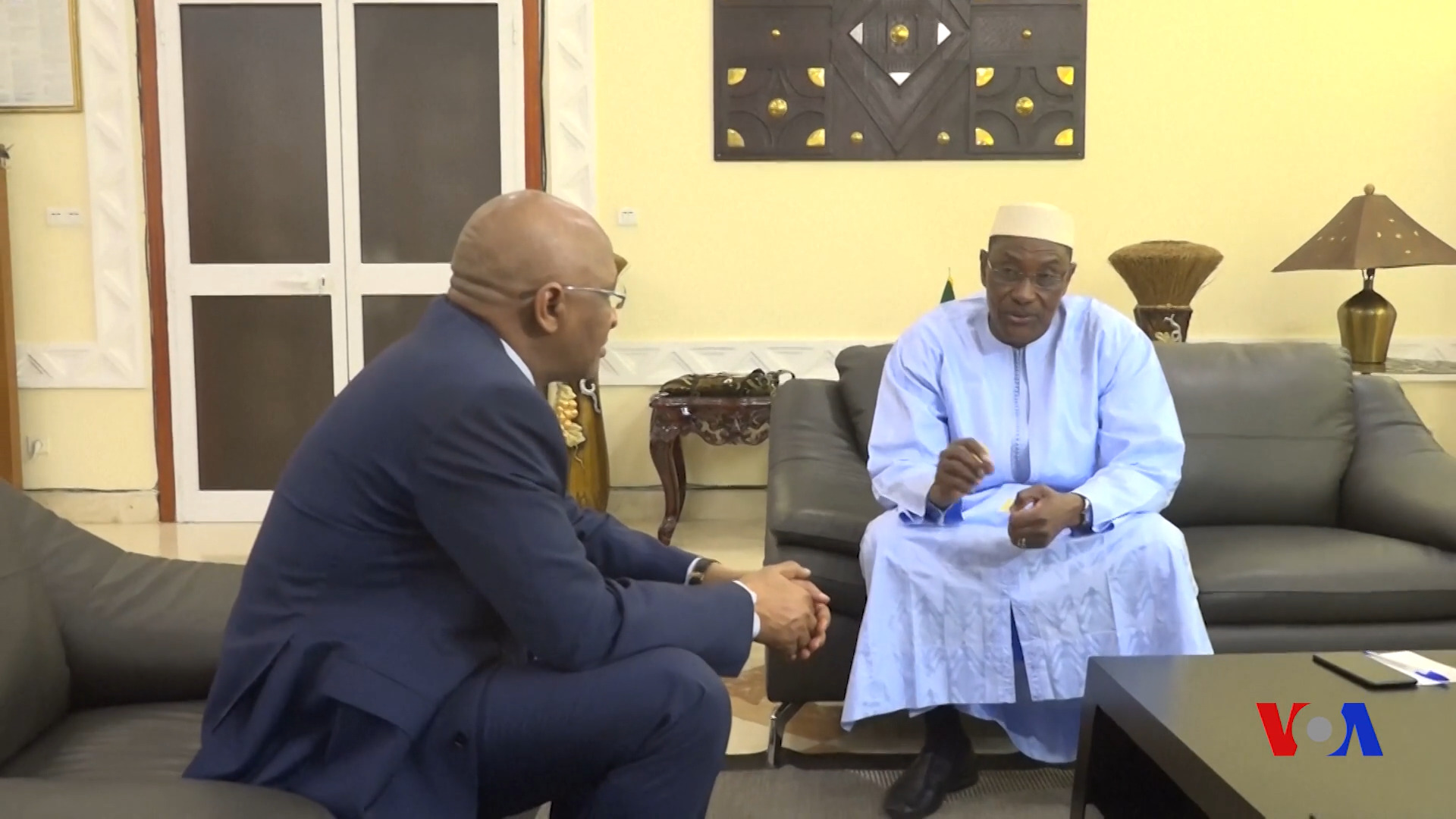 Abdoulaye Idrissa Maïga and Soumeylou Boubèye Maïga, probably in 2018